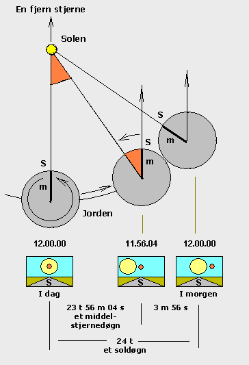 AUTHOR: Francisco Javier Blanco González COUNTRY: España -The Kingdom of Spain- IMAGE: the sidereal time and the solar time (translated from English into Norwegian) CHANGES APART FROM TRANSLATION: made the horizontal lines of equal length; centered the texts below "Jorden"